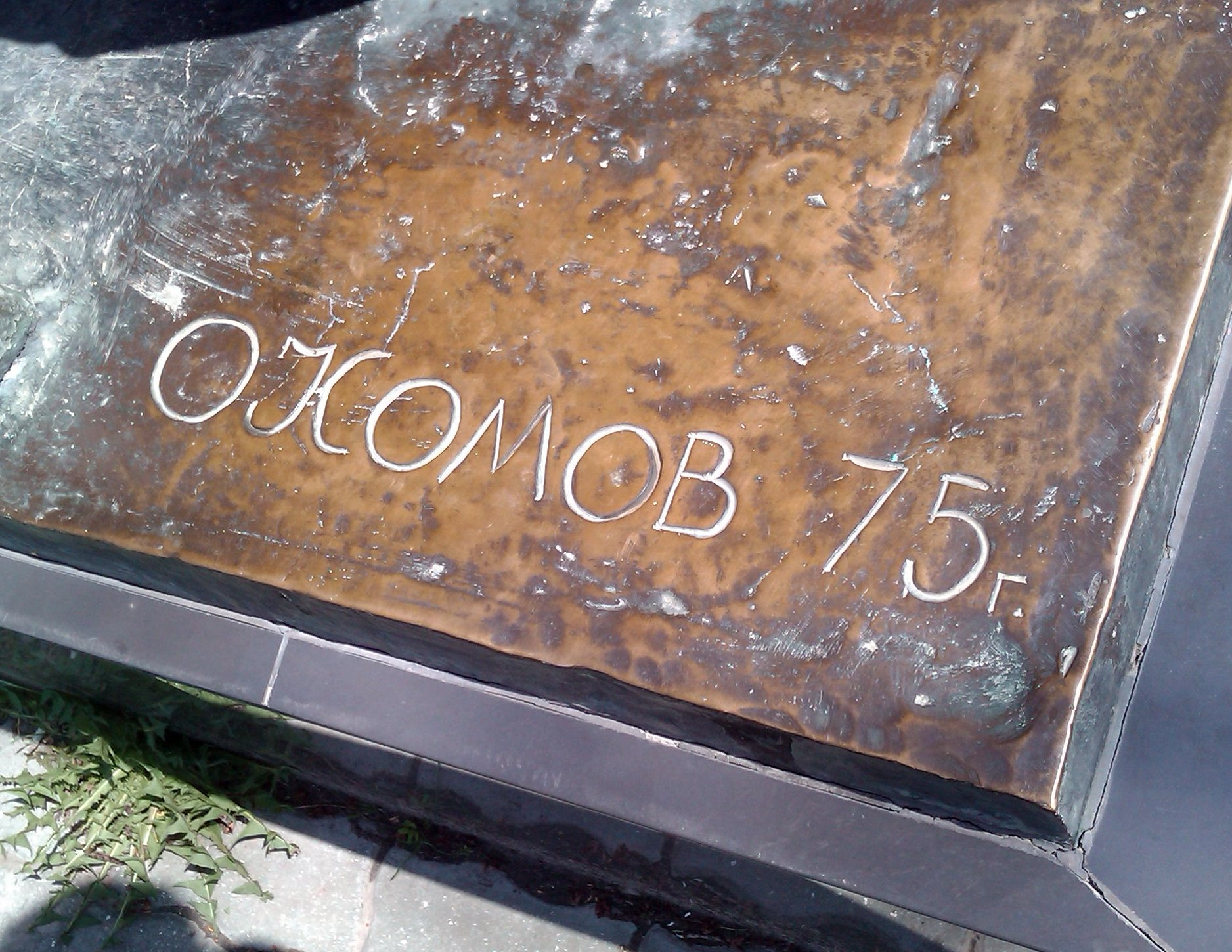 Yuri Gagarin and Sergei Korolyov monument